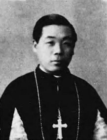 Paul Yoshigoro Taguchi around 1942